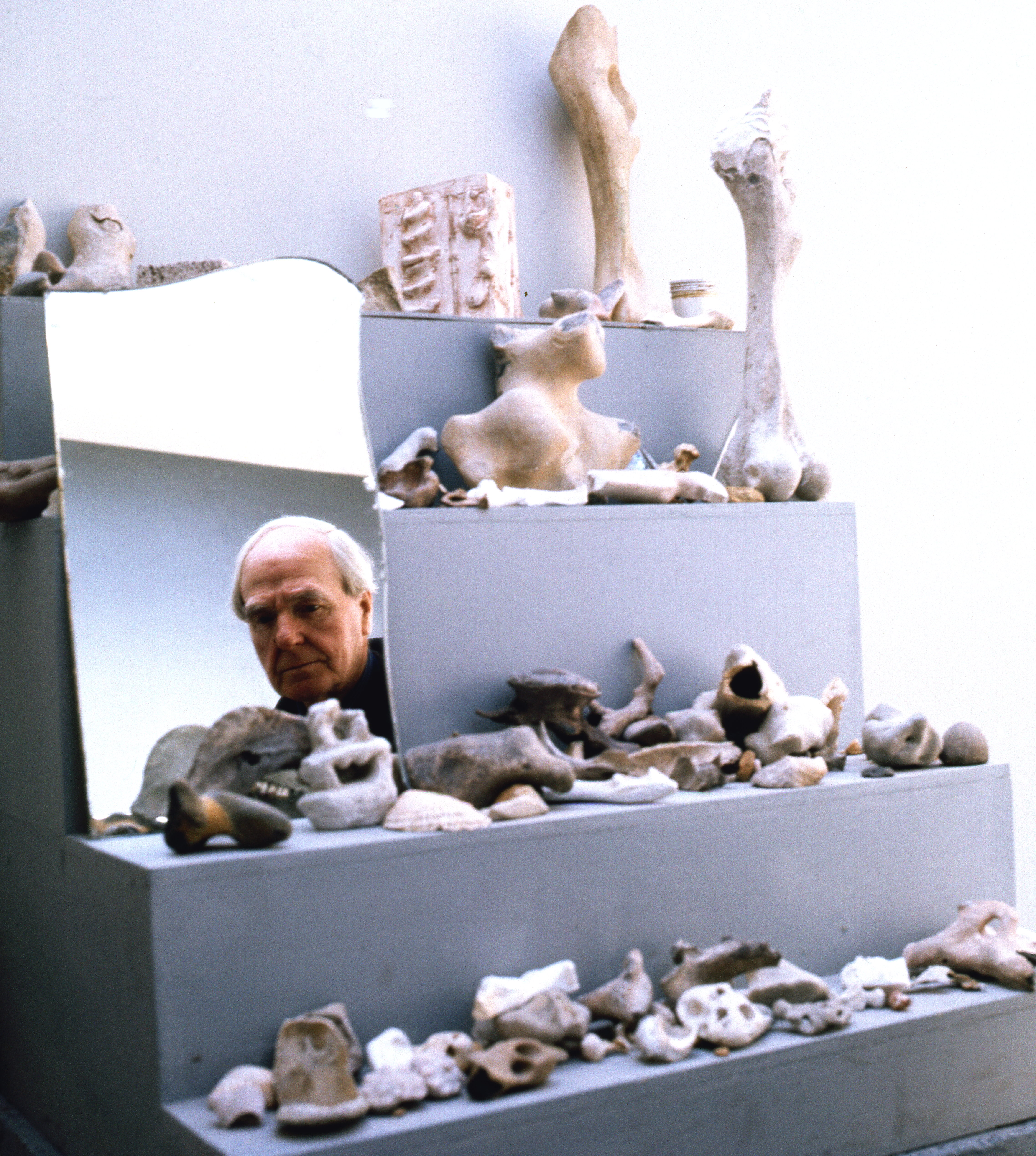 portrait of Henry Moore